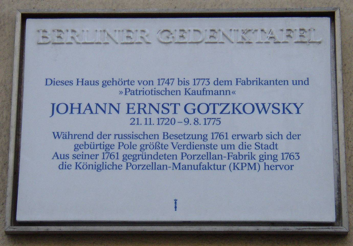 Berlin memorial plaque for Johann Ernst Gotzkowsky in Berlin-Mitte / The year 1761 is wrong, the Russian occupation of Berlin took part in 1760 Germany